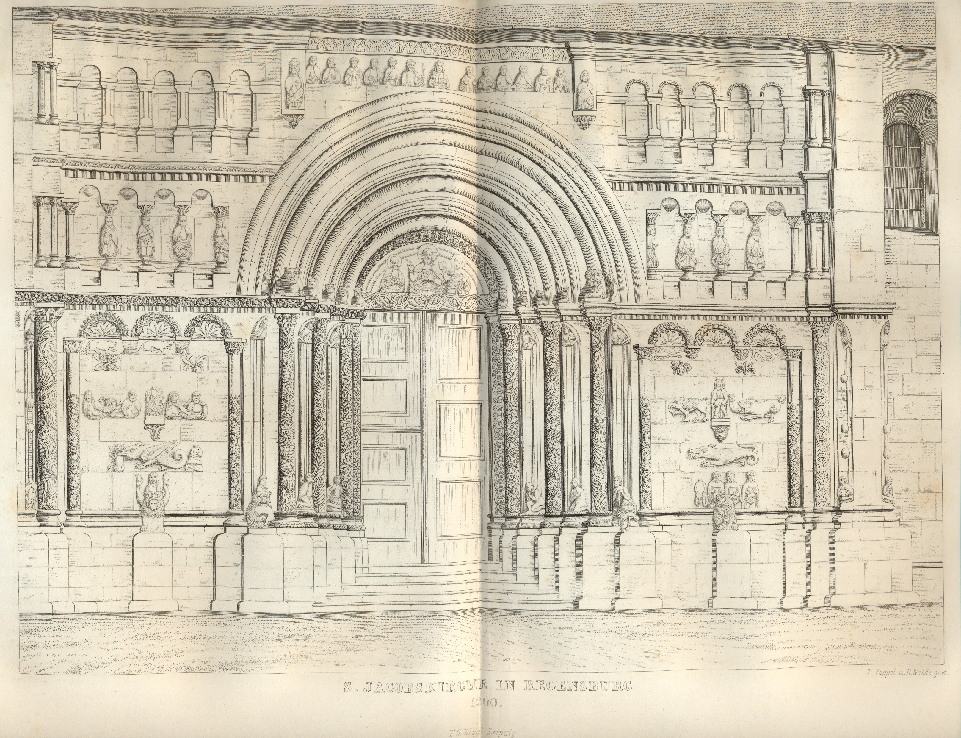 Schottenportal in Scots Monastery, Regensburg